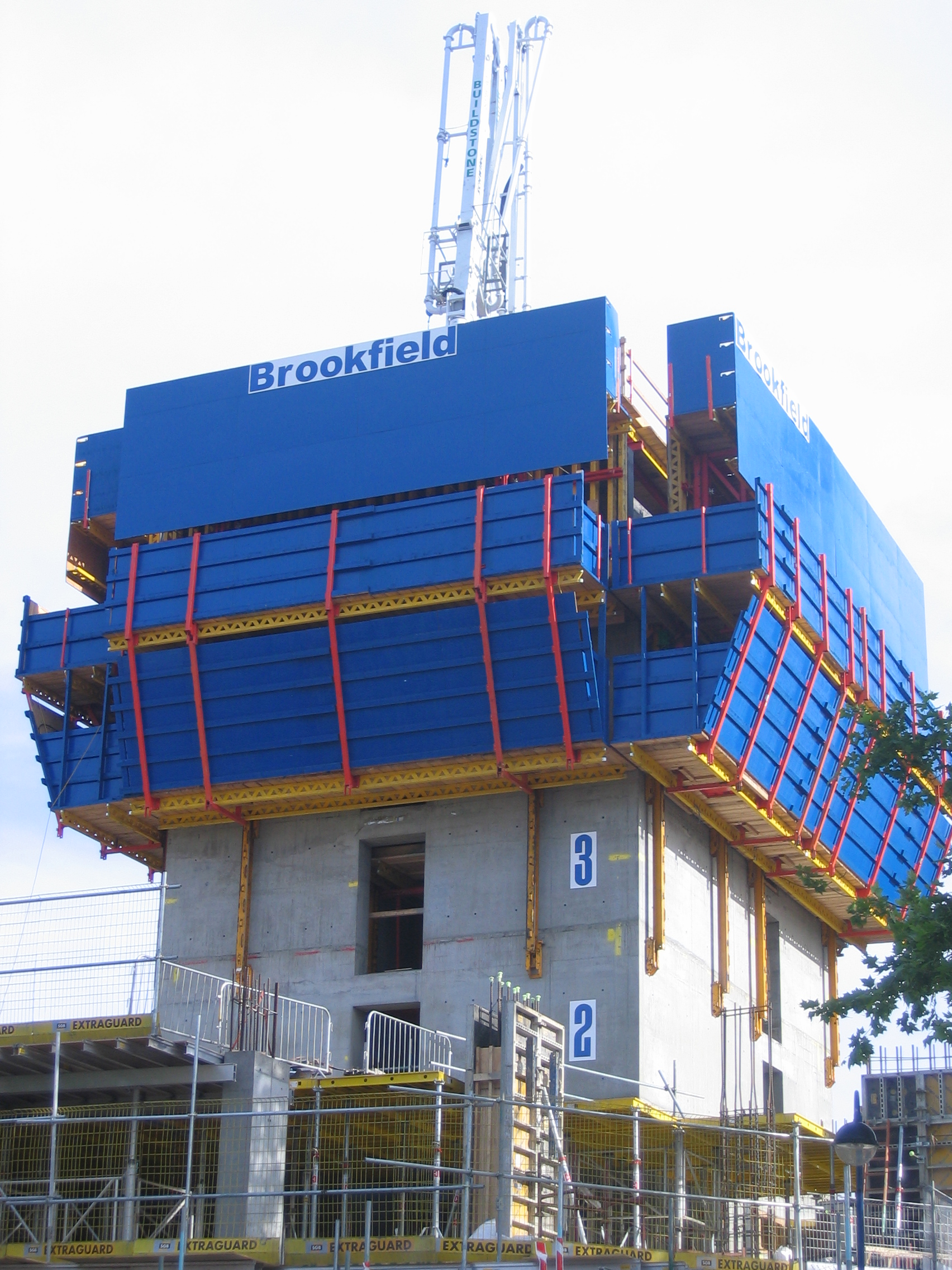 Strata is a new skyscraper being built at the Elephant and Castle, on the site of the old Castle House.